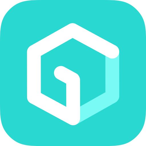 Getmii app icon on iOS 9